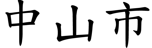 ZhongShanChinese